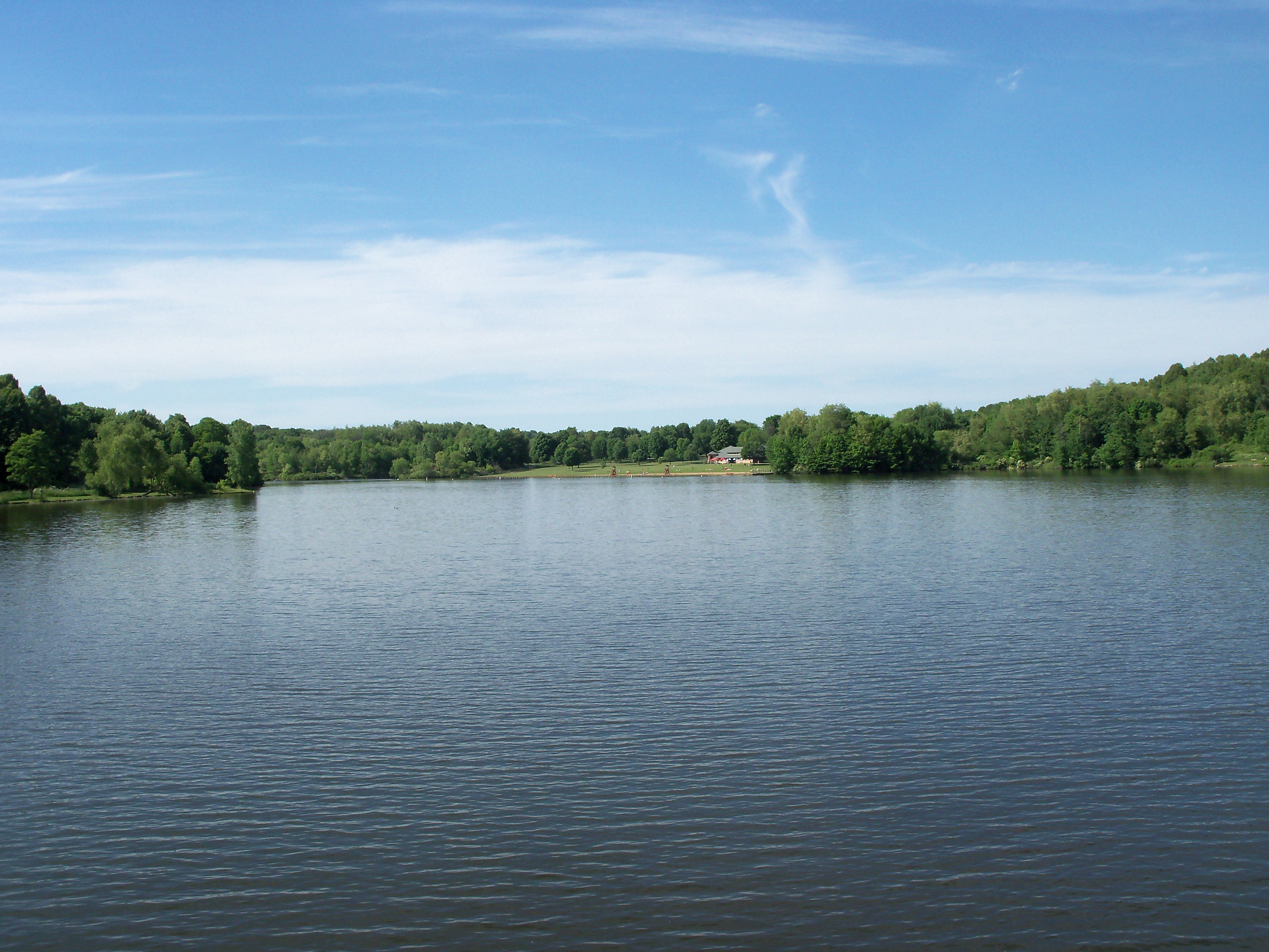 Silver Creek Lake in Silver Creek Metropark in Norton, Ohio